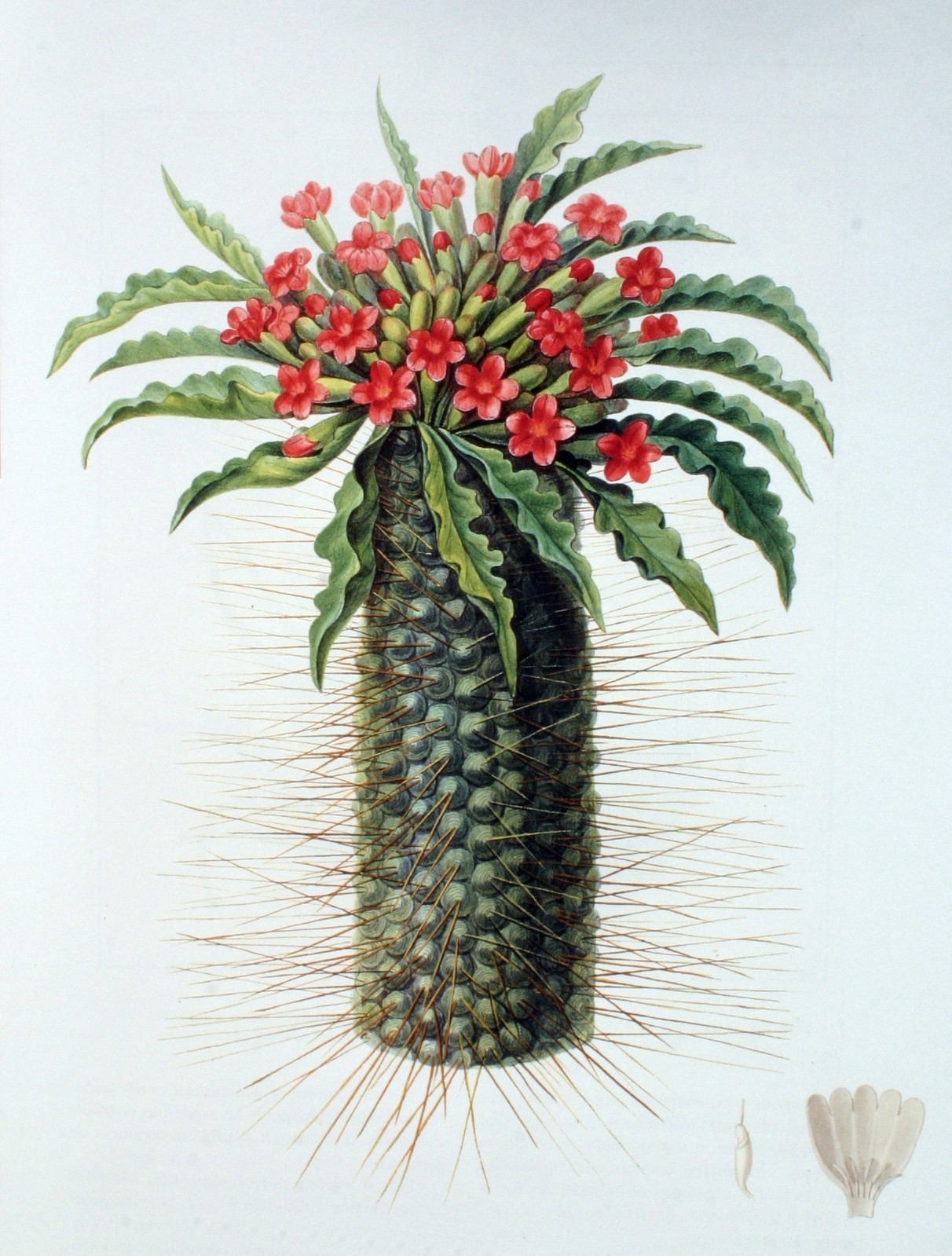 Painting of Pachypodium namaquanum Welw. ("Halfmens")